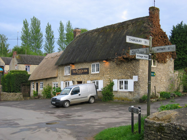 The Plough Inn, High Street, Finstock, Oxfordshire